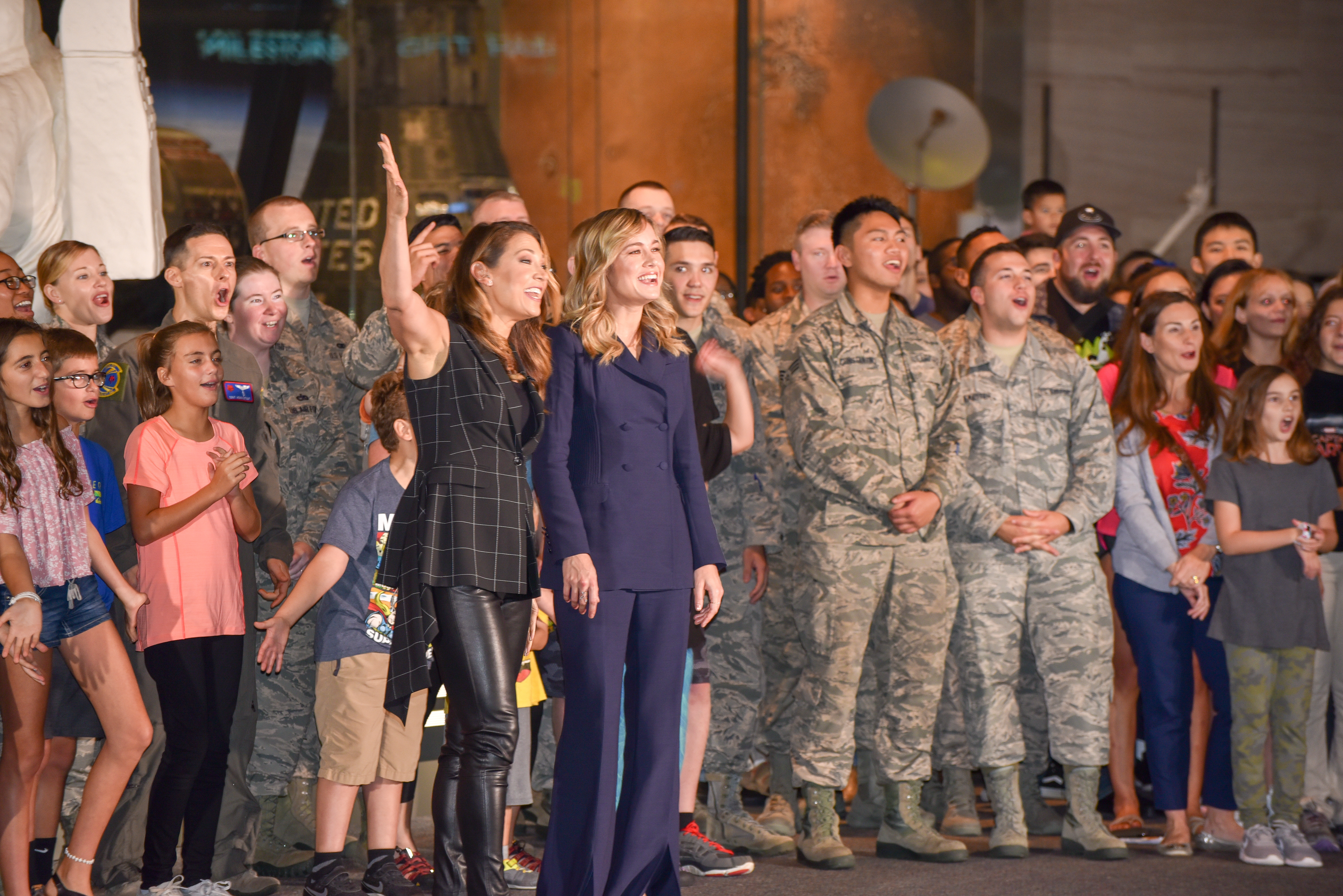 AFDW Airmen celebrated the U.S. Air Force 71st birthday by attending a special live screening of Captain Marvel at the National Air and Space Museum, Smithsonian Institution, hosted by Good Morning America Sep. 18, 2018. As the first female character to headline a Marvel franchise, Capt. Carol Danvers (actress Brie Larson) exemplifies the barrier-breaking spirit found in every generation of Airmen going back to 1947. (United States Air Force photo by 2d Lt Jessica Cicchetto)(Released)